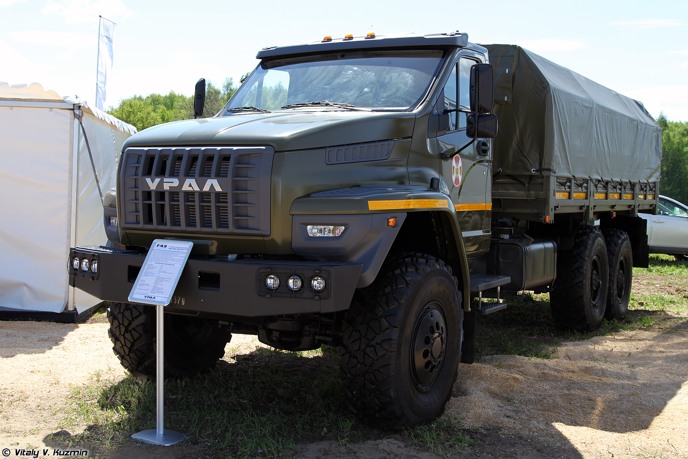 The Day of Advanced Technologies of Law Enforcement 2017